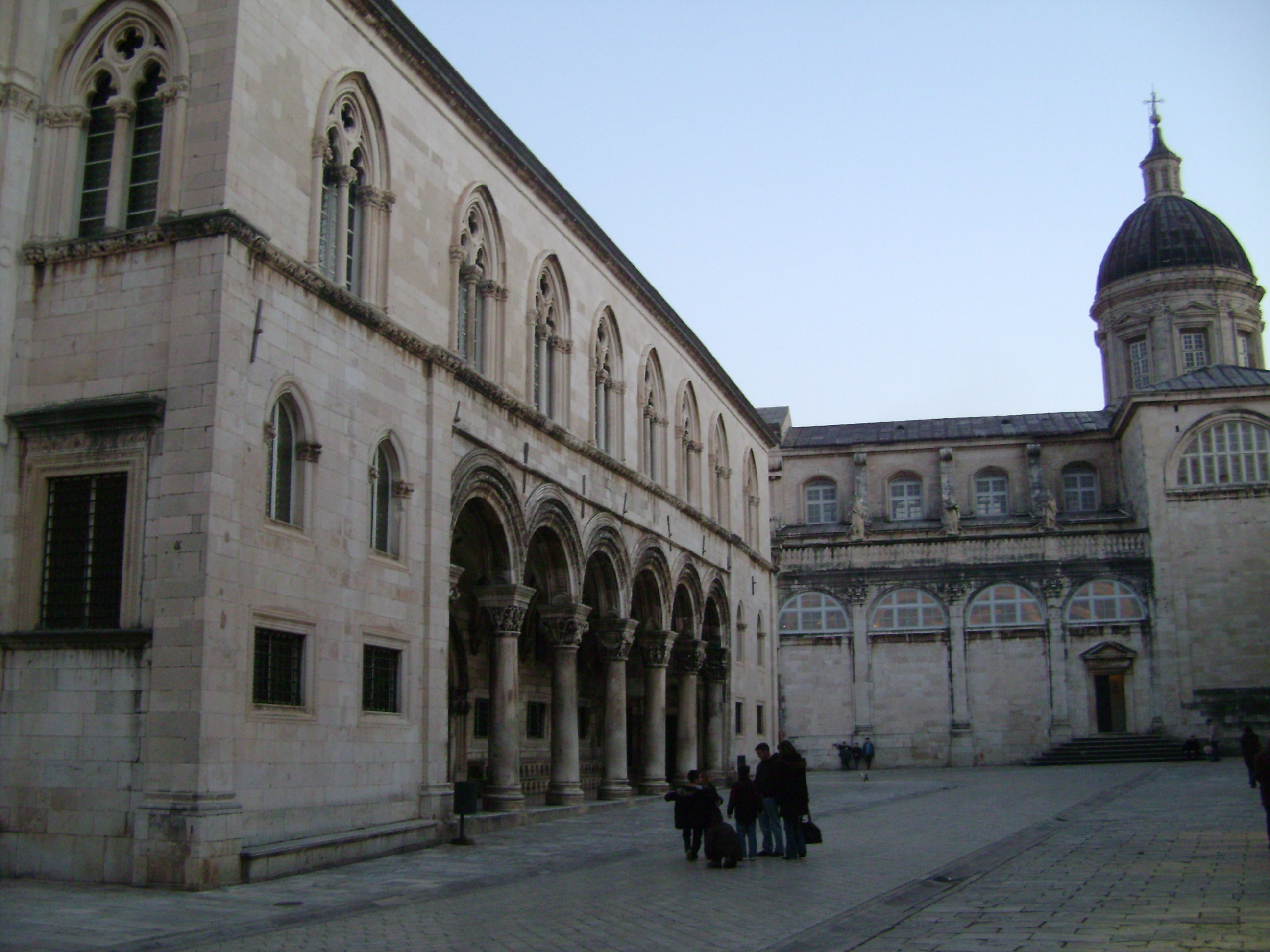 Dubrovnik, old town, monuments Duke palace and Cathedral